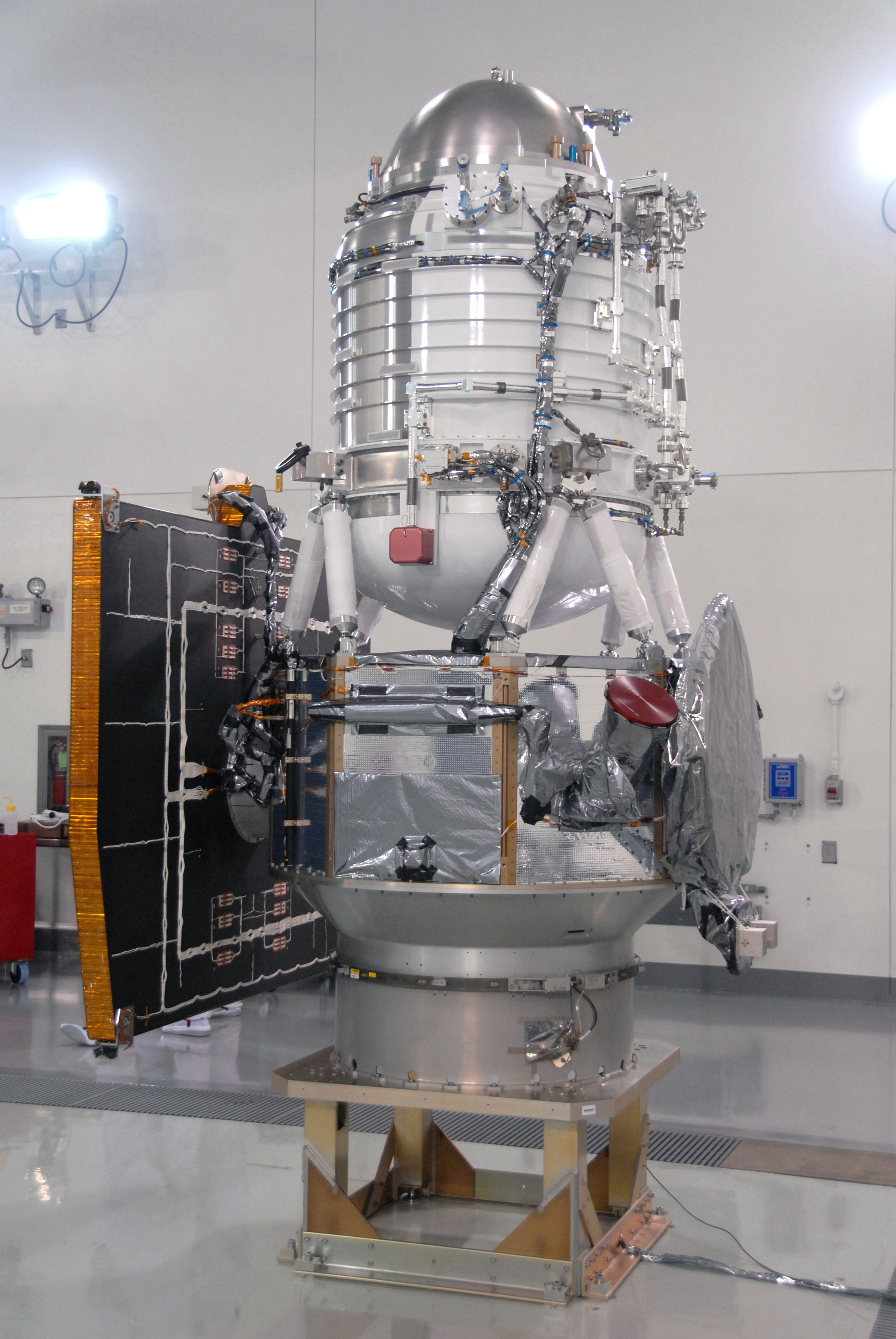 KSC-2009-4760 (08/17/2009) --- VANDENBERG AIR FORCE BASE, Calif. -- At Vandenberg Air Force Base's Astrotech processing facility in California, NASA's Wide-field Infrared Survey Explorer, or WISE, spacecraft is situated on a work stand. At left on the spacecraft is the fixed panel solar array. In front, the square is the HGA Slotted Array (Ku-Band). The satellite will survey the entire sky at infrared wavelengths, creating a cosmic clearinghouse of hundreds of millions of objects, which will be catalogued, providing a vast storehouse of knowledge about the solar system, the Milky Way, and the universe. Launch is scheduled no earlier than Dec. 10. Photo credit: NASA/Moore, VAFB